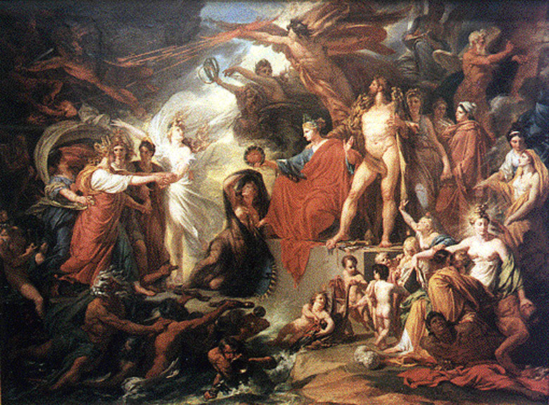 Gods pantheon